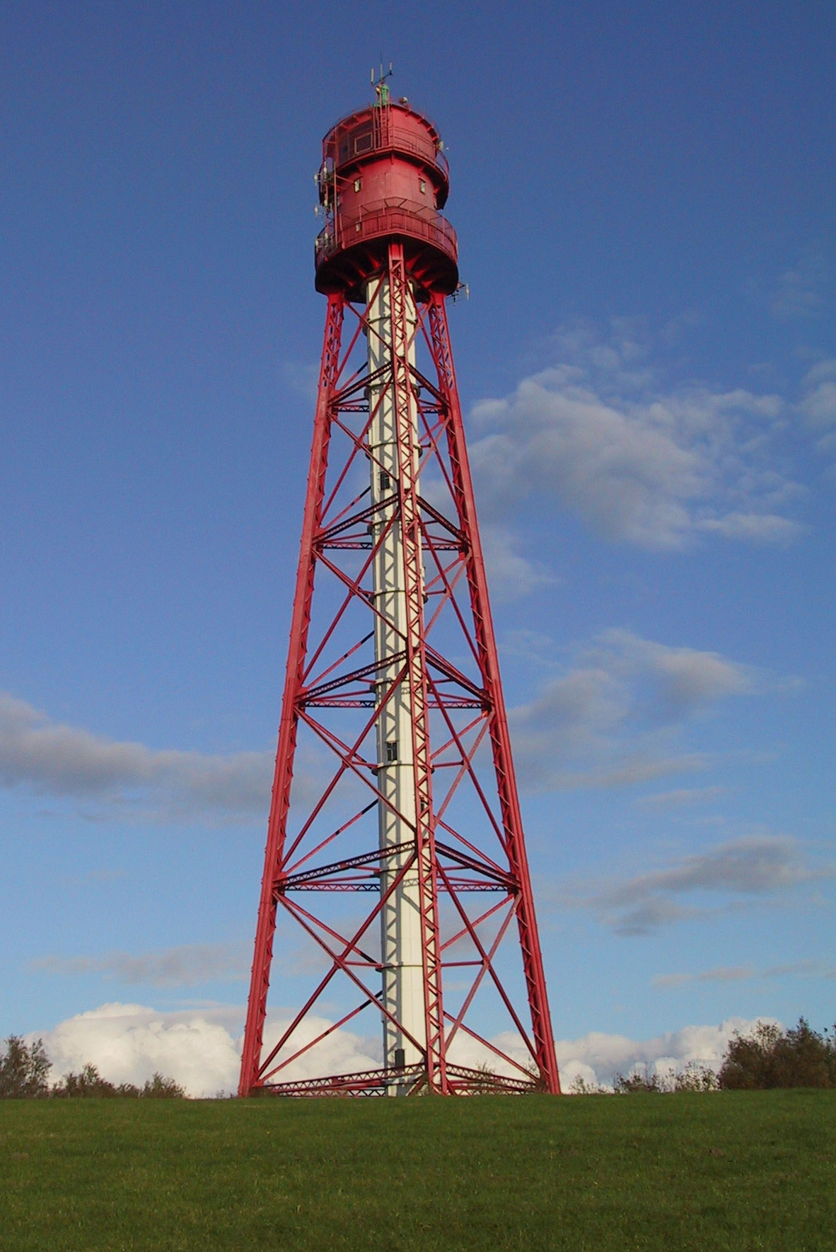 Located near the mouth of the river Ems into the north sea, this is the tallest light house in Germany (65 meters). See here for more information. Fly to this location (requires Google Earth).